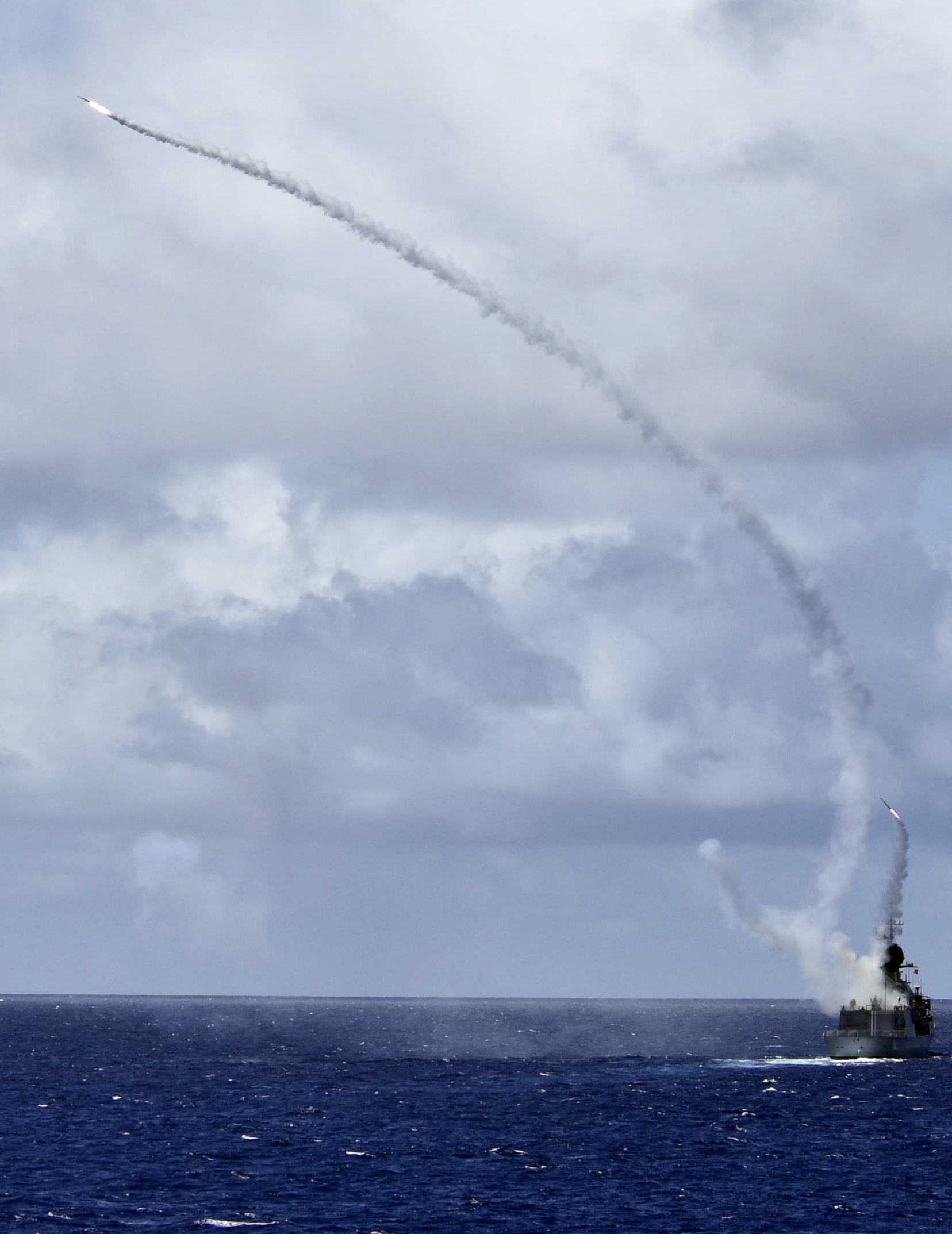 Two RIM-162 Evolved Sea Sparrow Missiles (ESSM) are simultaneously launched from the Royal Australian Navy frigate HMAS Ballarat (FFH 155) as part of a live fire exercise. Ballarat was underway participating in Rim of the Pacific 2016.